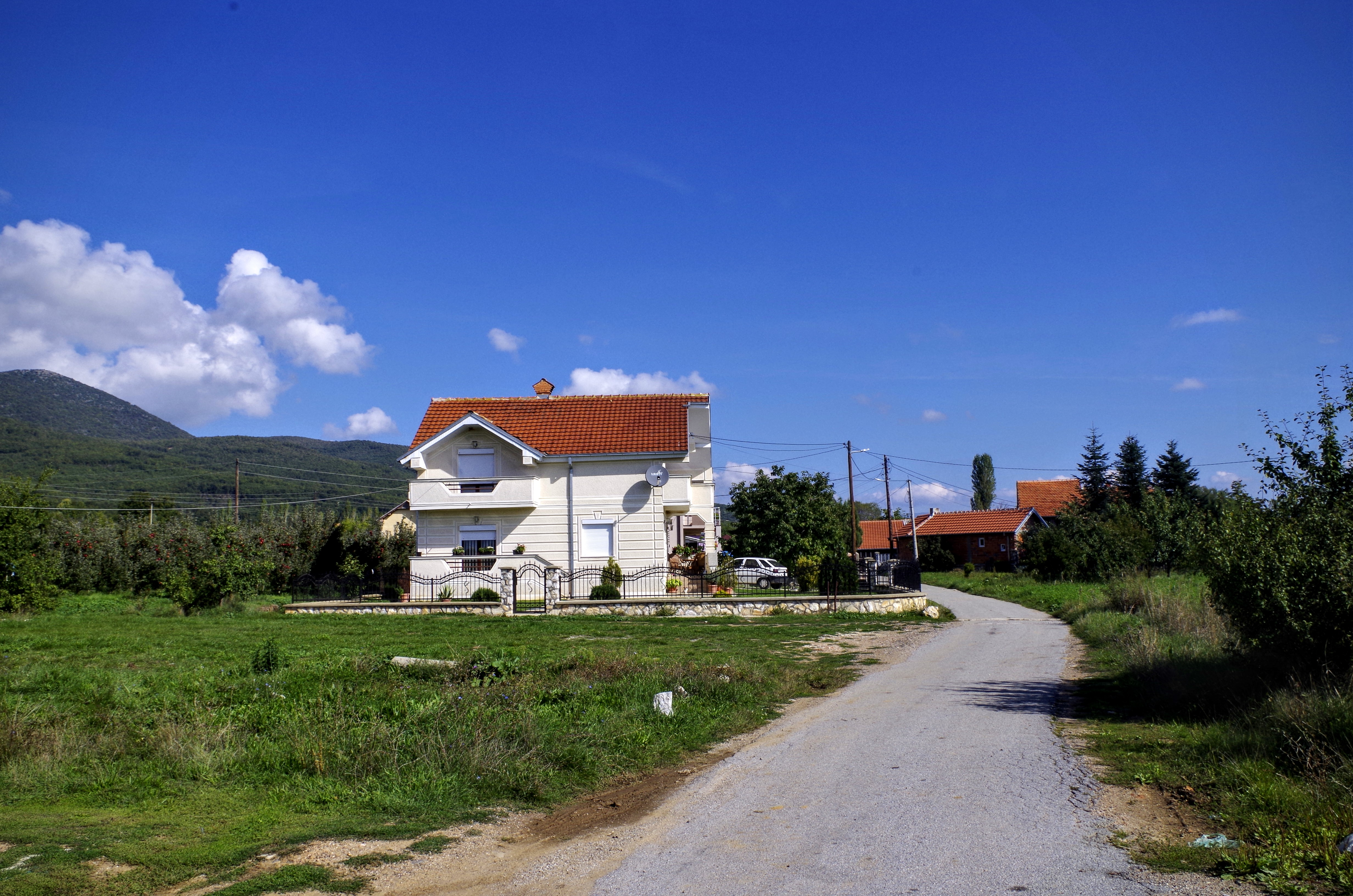 View of the village Šurlenci